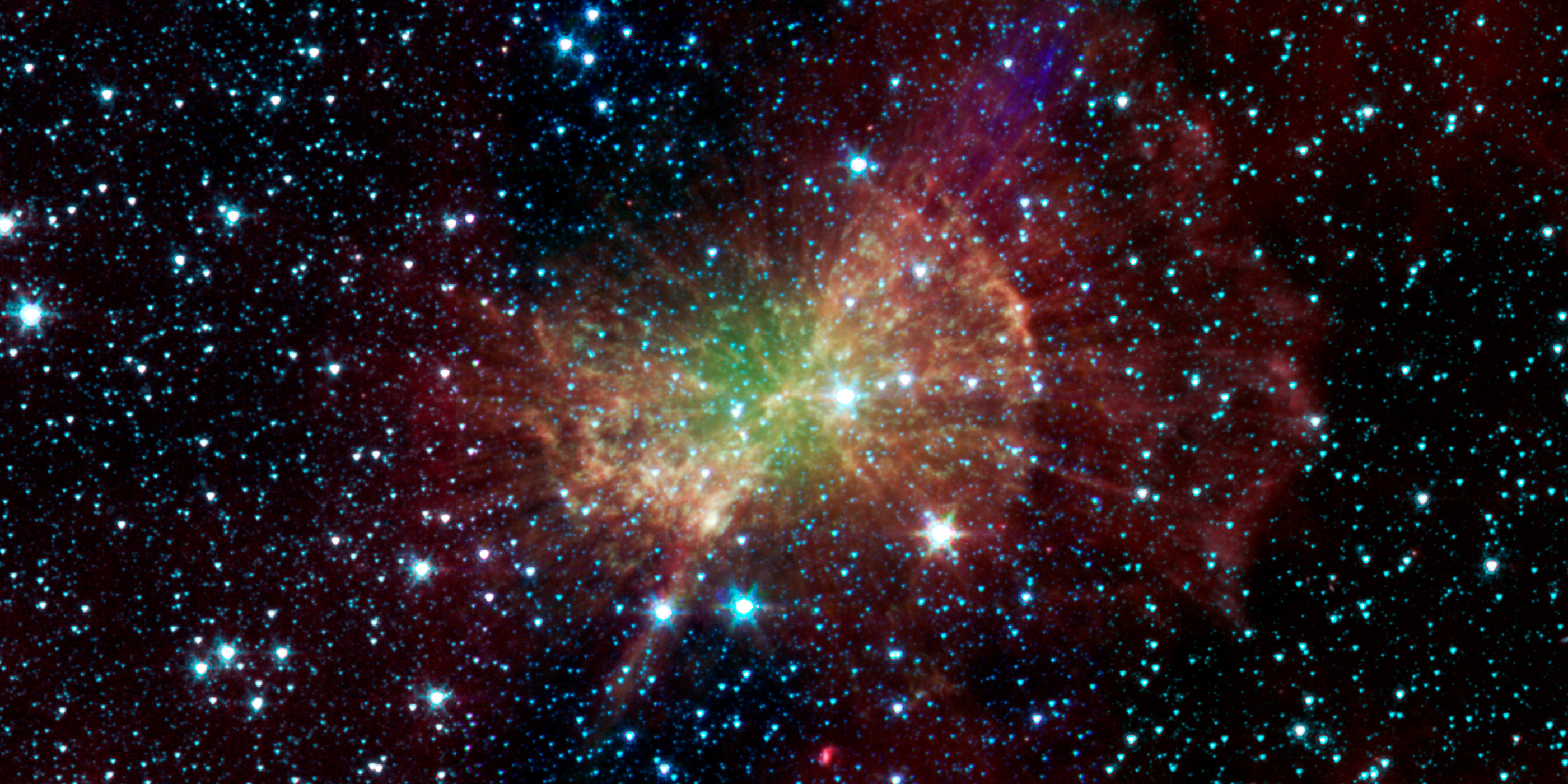 The Dumbbell nebula, also known as Messier 27, pumps out infrared light in this image from NASAs Spitzer Space Telescope. Spitzers infrared view shows a different side of this recycled stellar material. It is interesting how different Spitzers view of the Dumbbell looks compared to optical images, comments Dr. Joseph Hora of the Harvard Smithsonian Center for Astrophysics. The diffuse green glow, which is brightest near the center, is probably showing us hot gas atoms being heated by the ultraviolet light from the central white dwarf. A collection of clumps fill the central part of the nebula, and red-coloured radial spokes extend well beyond. Astronomers think these features represent molecules of hydrogen gas, mixed with traces of heavier elements.